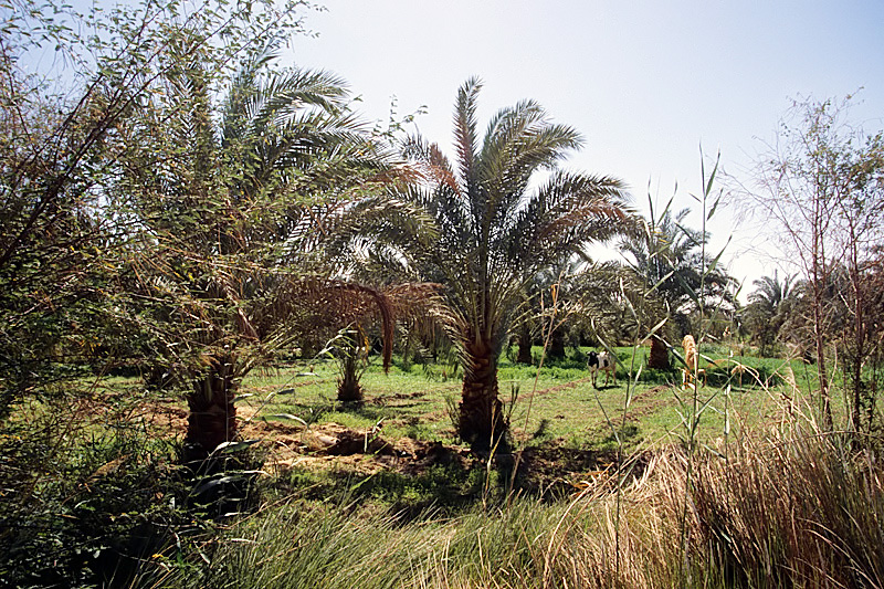 Bileida, gardens, el-Kharga depression, Libyan desert, Egypt